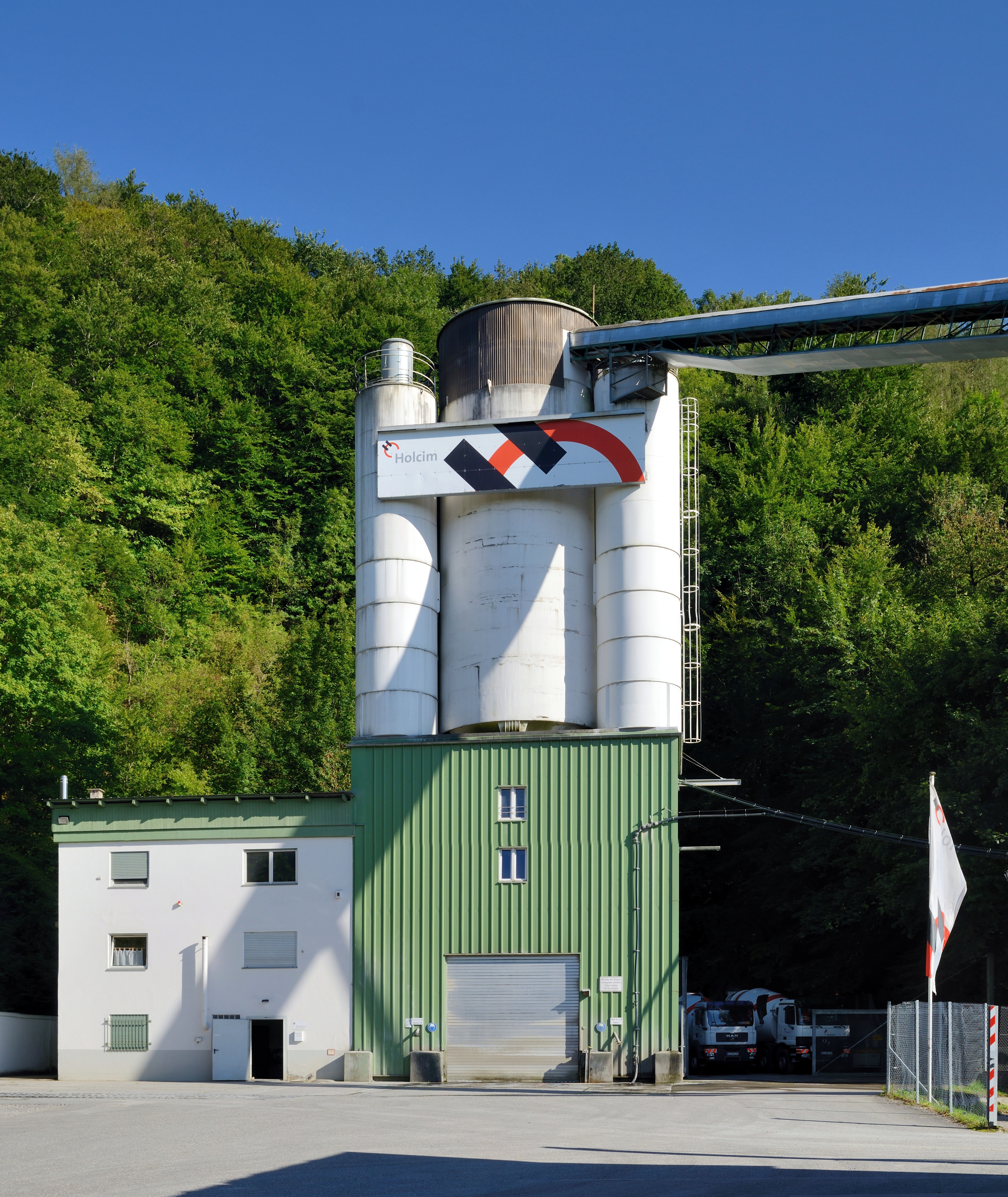 Lörrach-Brombach: concrete factory